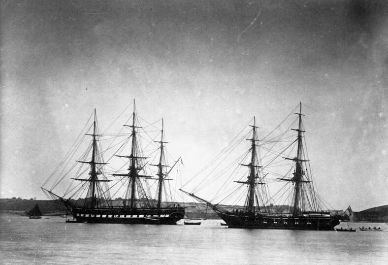 German sailing frigate SMS "Gefion" and sailing brig SMS "Rover" (ex British sloop HMS "Rover" acquired in 1861 for training purposes)